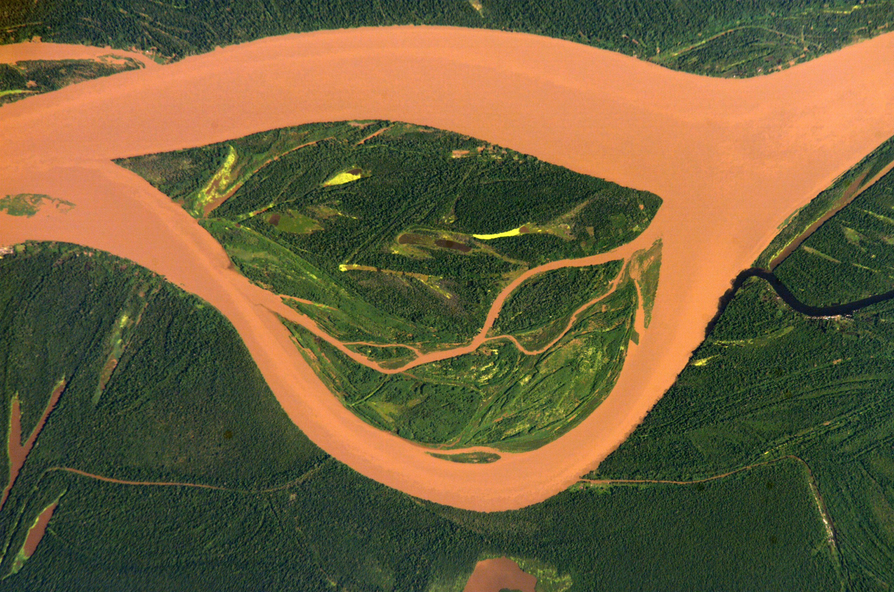 Amazon 95 km upstream of Tabatinga/Leticia (Frontier Colombia-Peru)